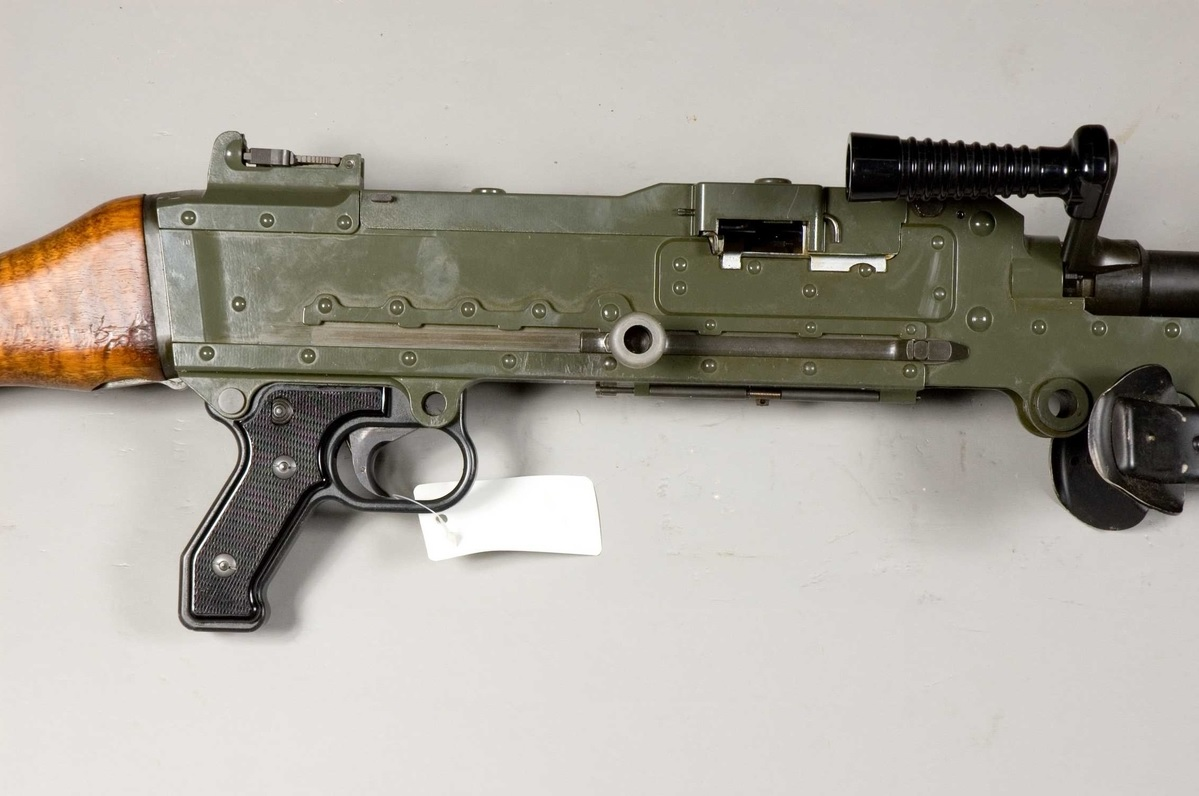 The Kulspruta 58 (Ksp 58) machine gun, chambered in 6,5 × 55 mm, is a Swedish version of the FN MAG. In the early 1970's the barrel was replaced with one chambered for 7,62 × 51 mm NATO. Photo from the Swedish Army Museum collections.